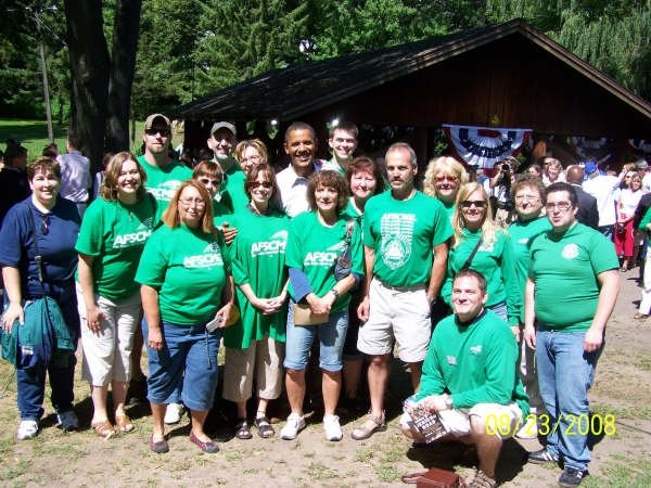 WI: Then-Senator Barack Obama and AFSCME members, Eau Claire, Wisconsin, August 24, 2008